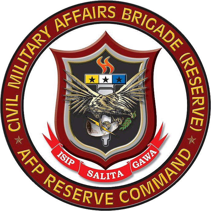 Unit seal of the Civil-Military Affairs Brigade (Reserve).